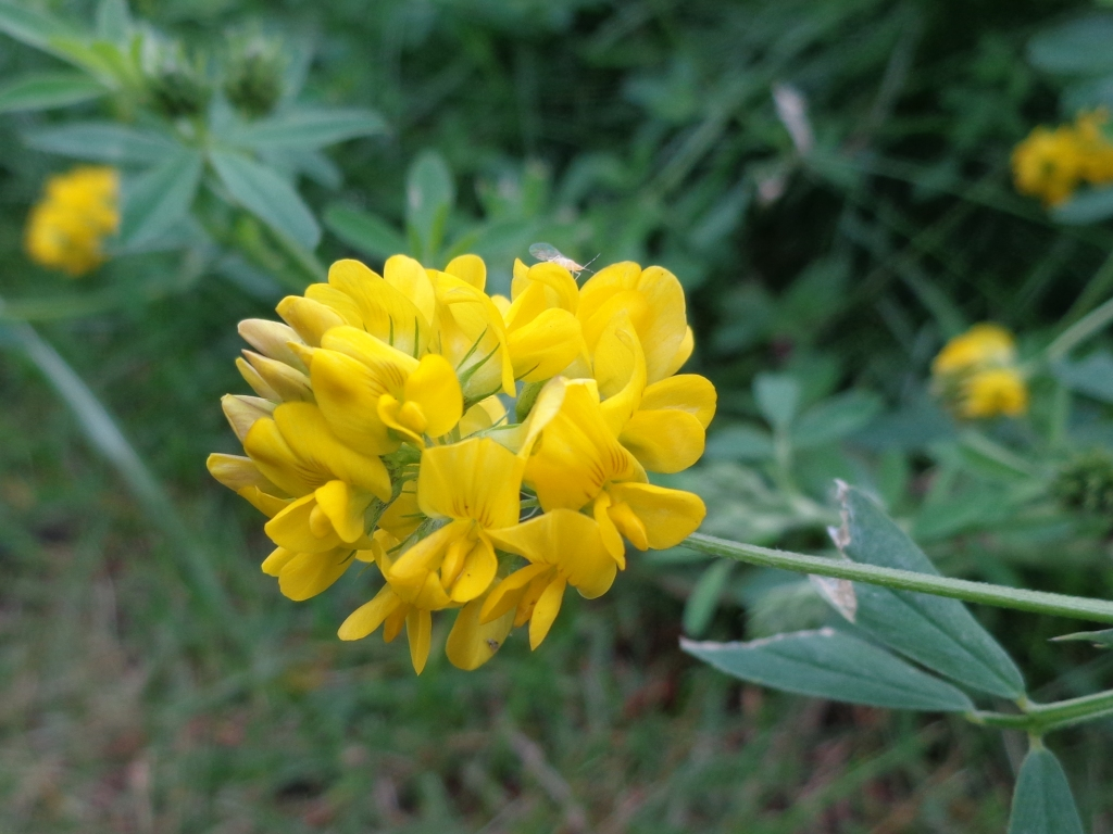 Medicago falcata. Found in Rīga town, Latvia